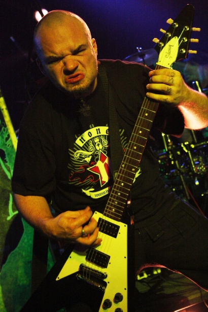 Darek "Popcorn" Popowicz